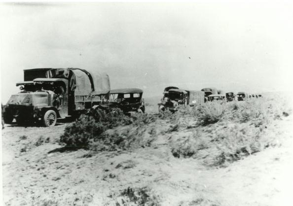 Military convoy as it appeared in western Nebraska during 1919 trek across the U. S. (from east to west) on the Lincoln Highway.